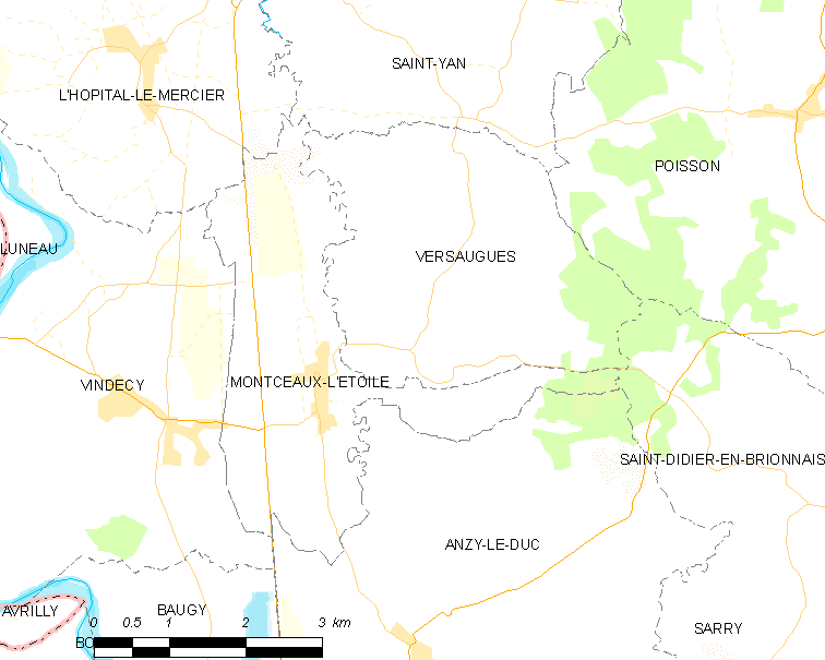 Map of French municipality